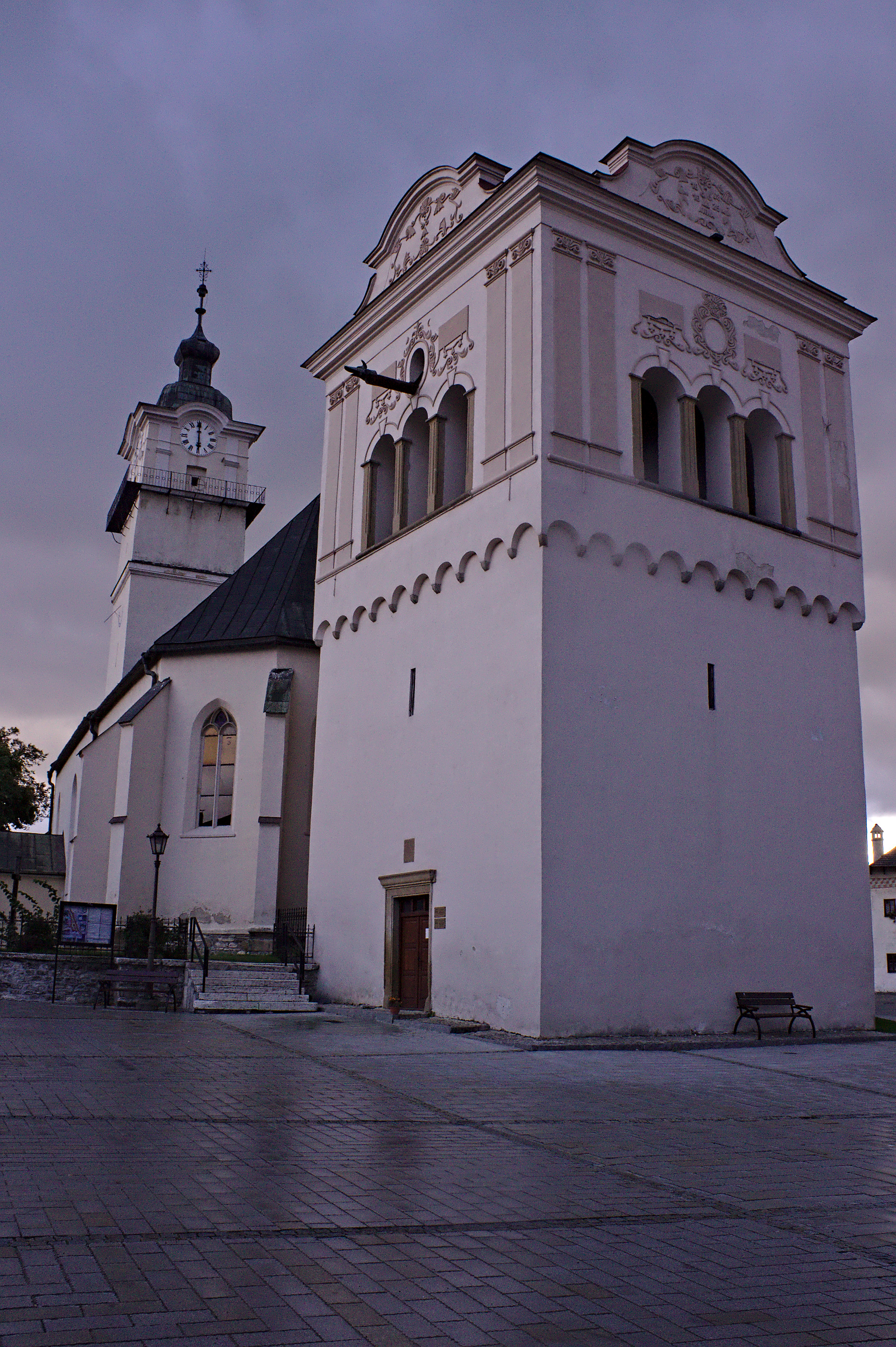 Spišská Sobota square